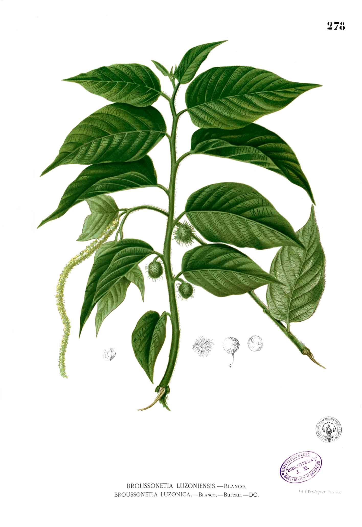 Plate from book